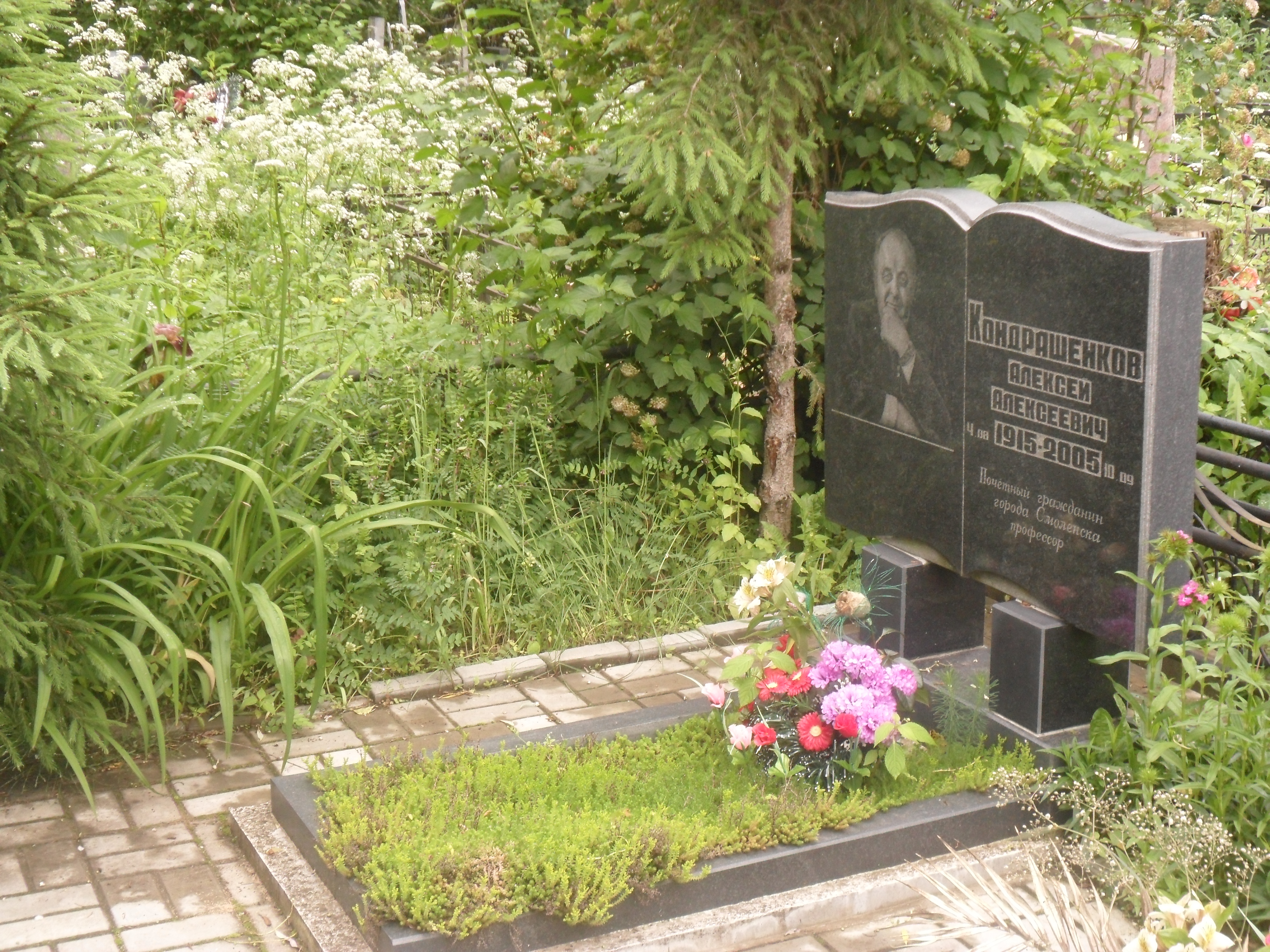 Tomb of honorary citizen of Smolensk Alexei Kondrashenkov the New Cemetery in Smolensk